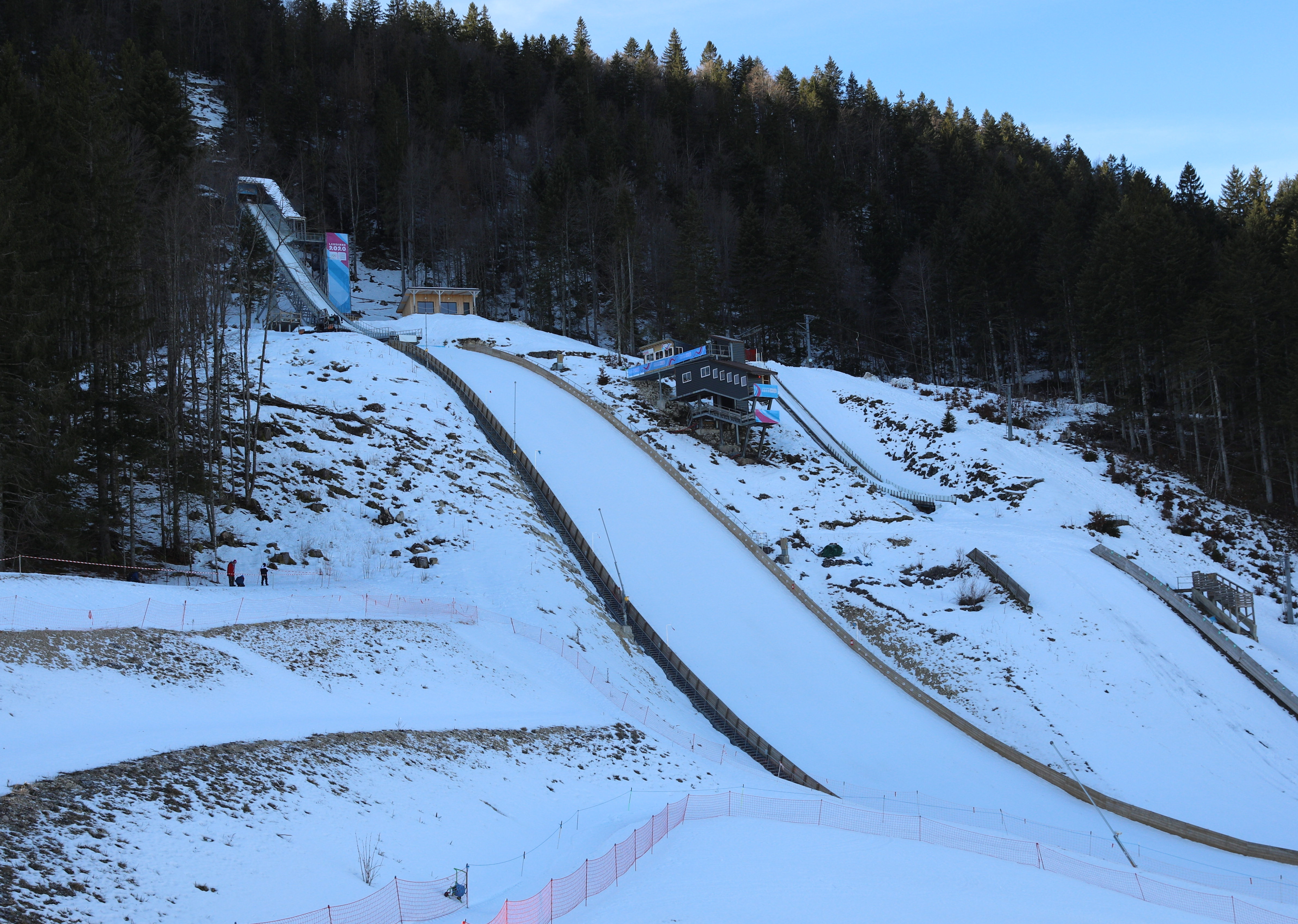 Stade Nordique des Tuffes "Jason Lamy Chappuis" at the 2020 Winter Youth Olympics in Lausanne